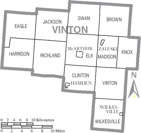 Map of Vinton County, Ohio, United States with township and municipal boundaries